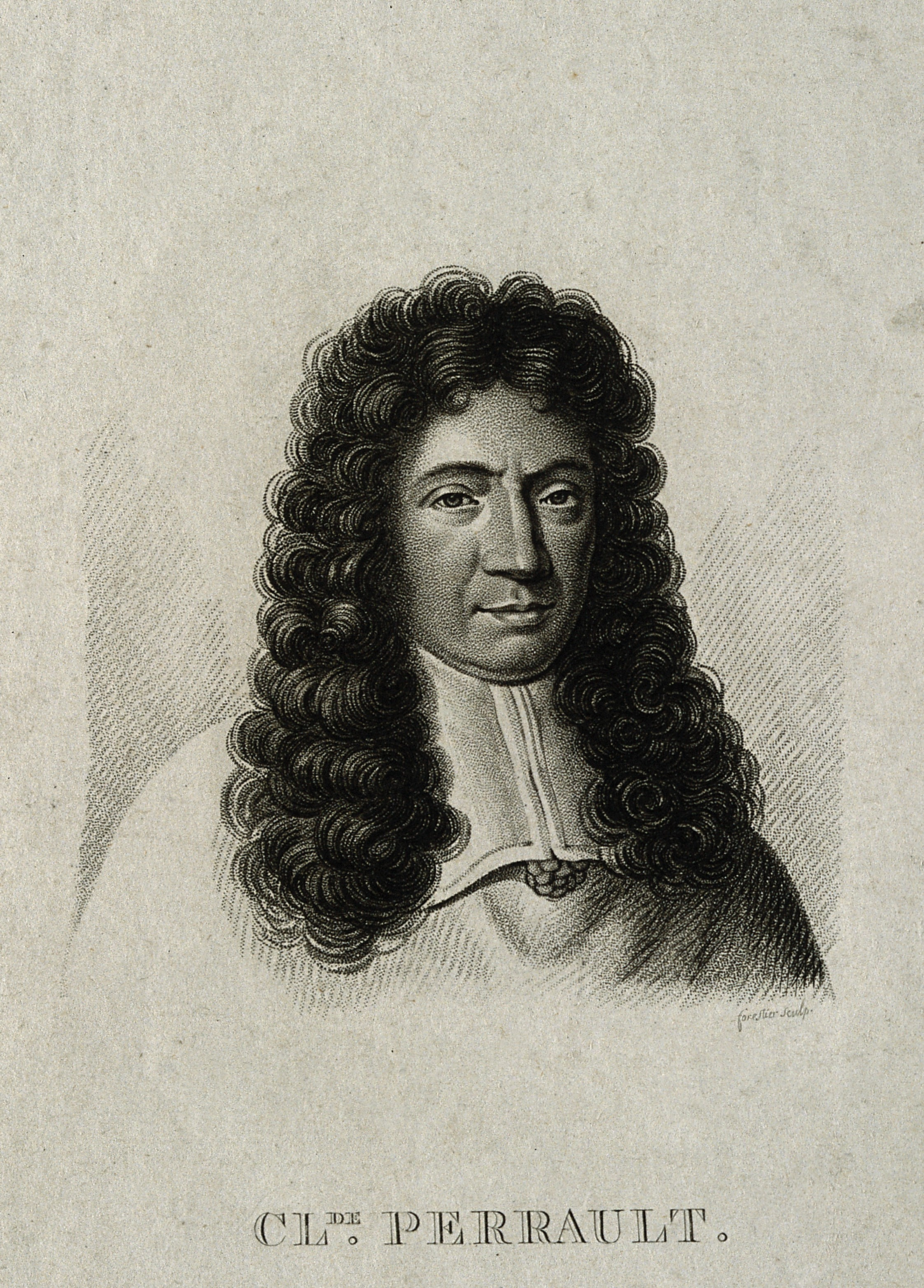 Claude Perrault. Stipple engraving by A. Forestier. Iconographic Collections Keywords: portrait prints; stipple prints; Claude Perrault